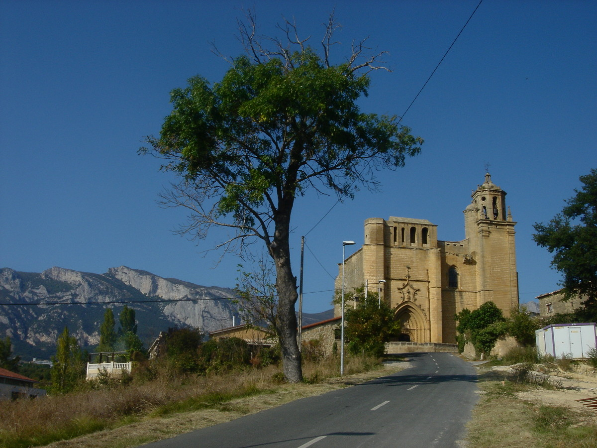 Leza (Araba, Basque Country, Spain)